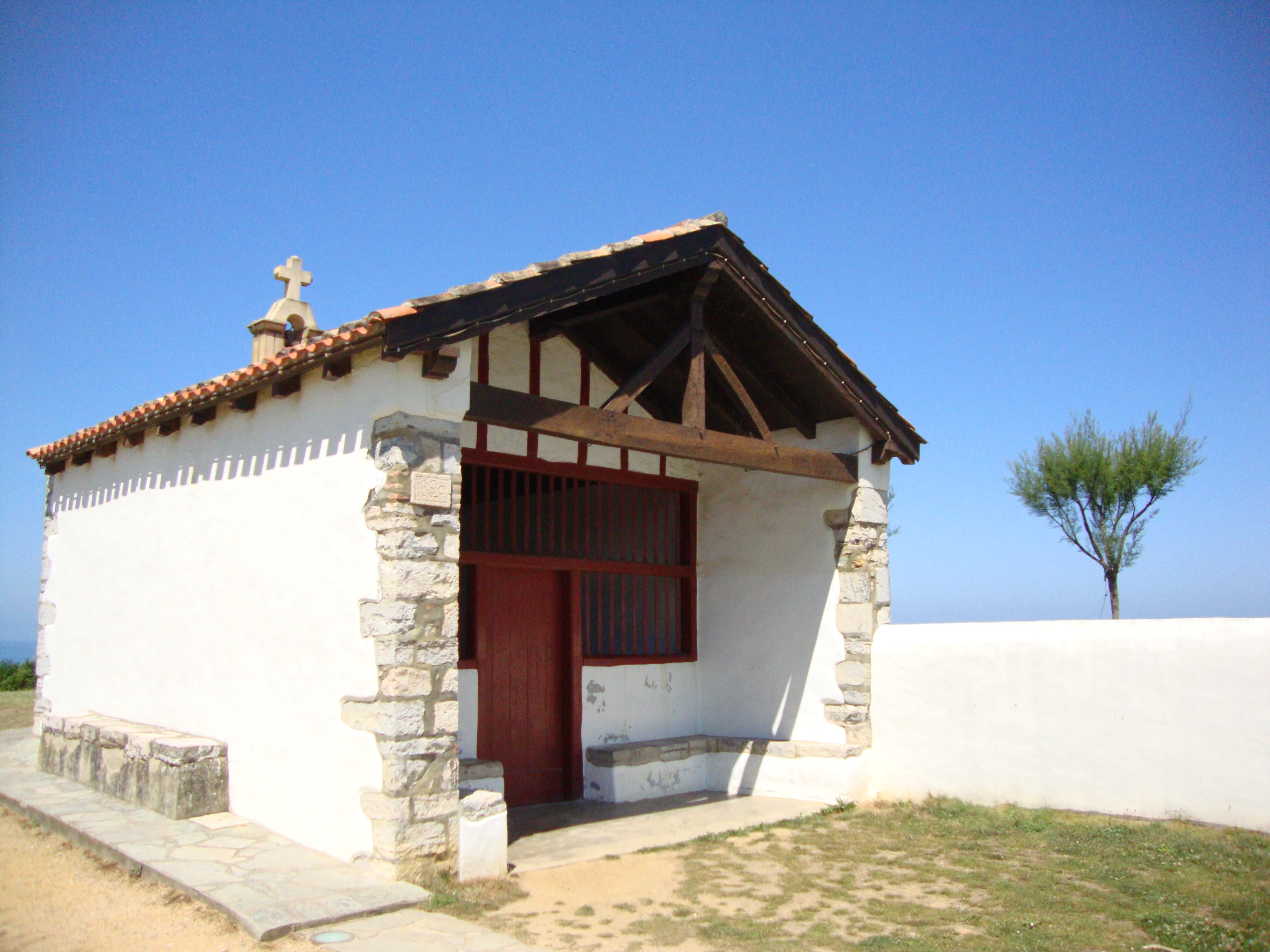 Bidart (Pyr-Atl., Fr) Chapelle Ste Madeleine.